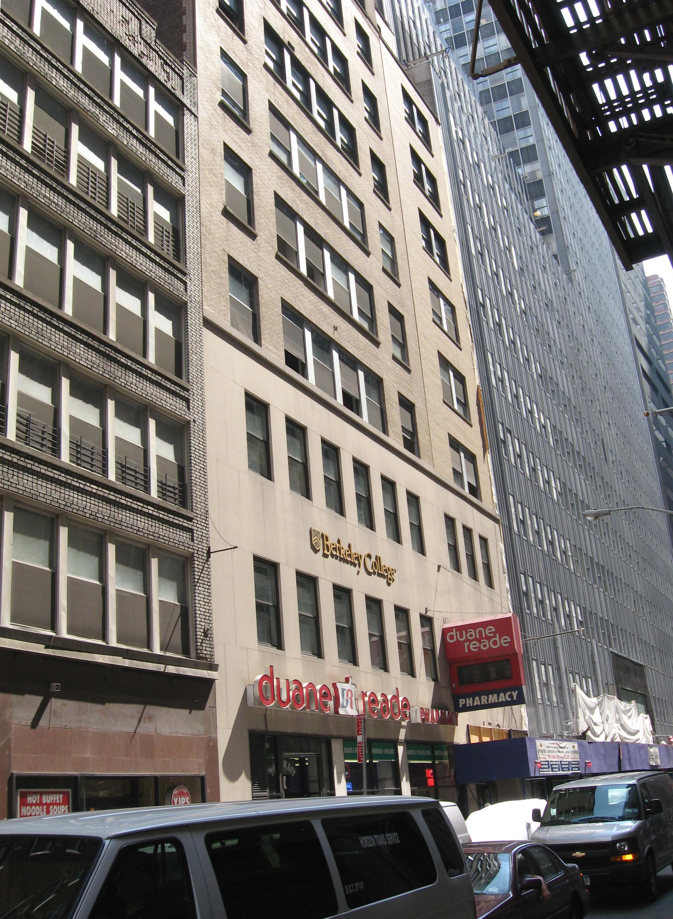 Looking southwest down William Street from Fulton at Berkeley College building on a sunny midday.